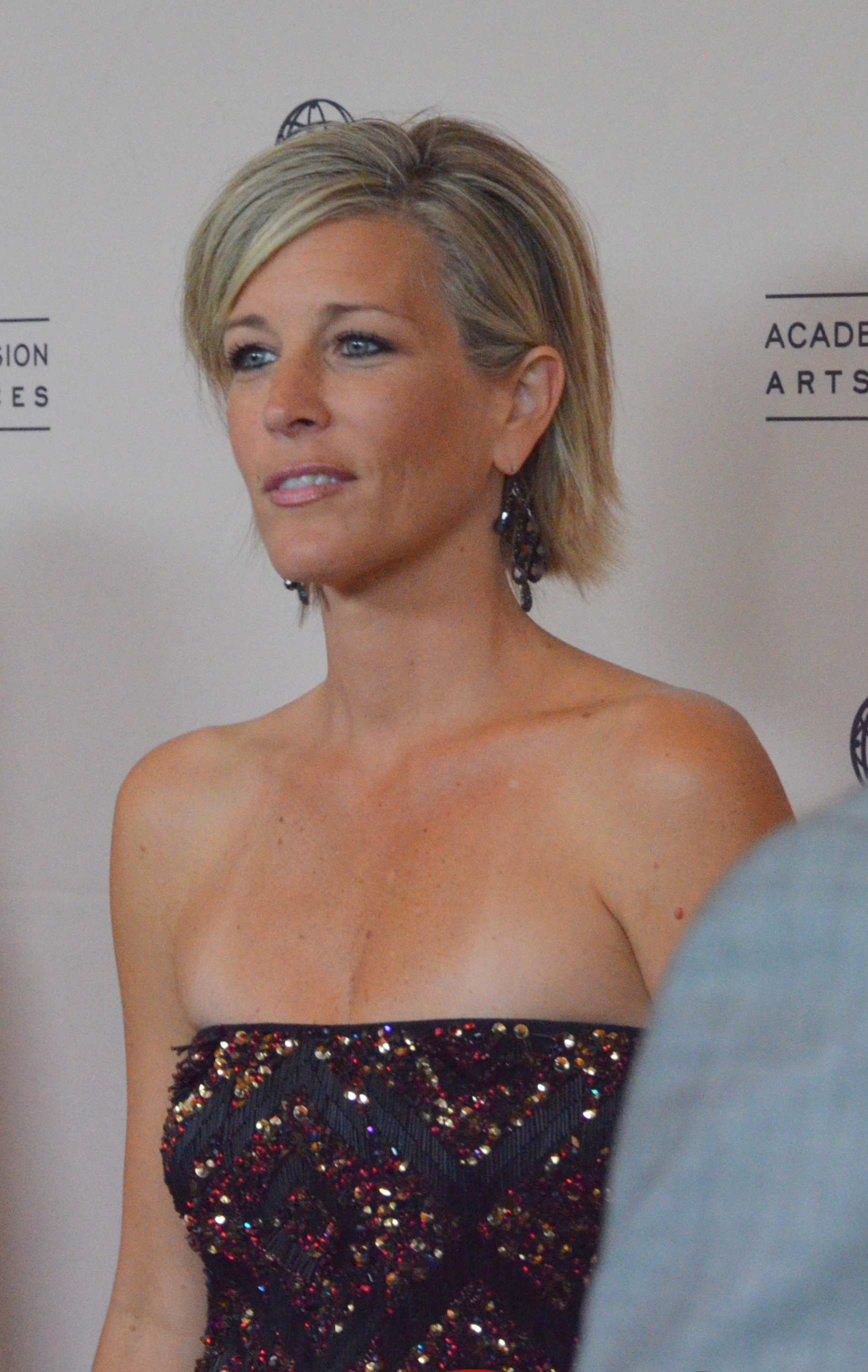 Mingle Media TV and Red Carpet - Laura Wright